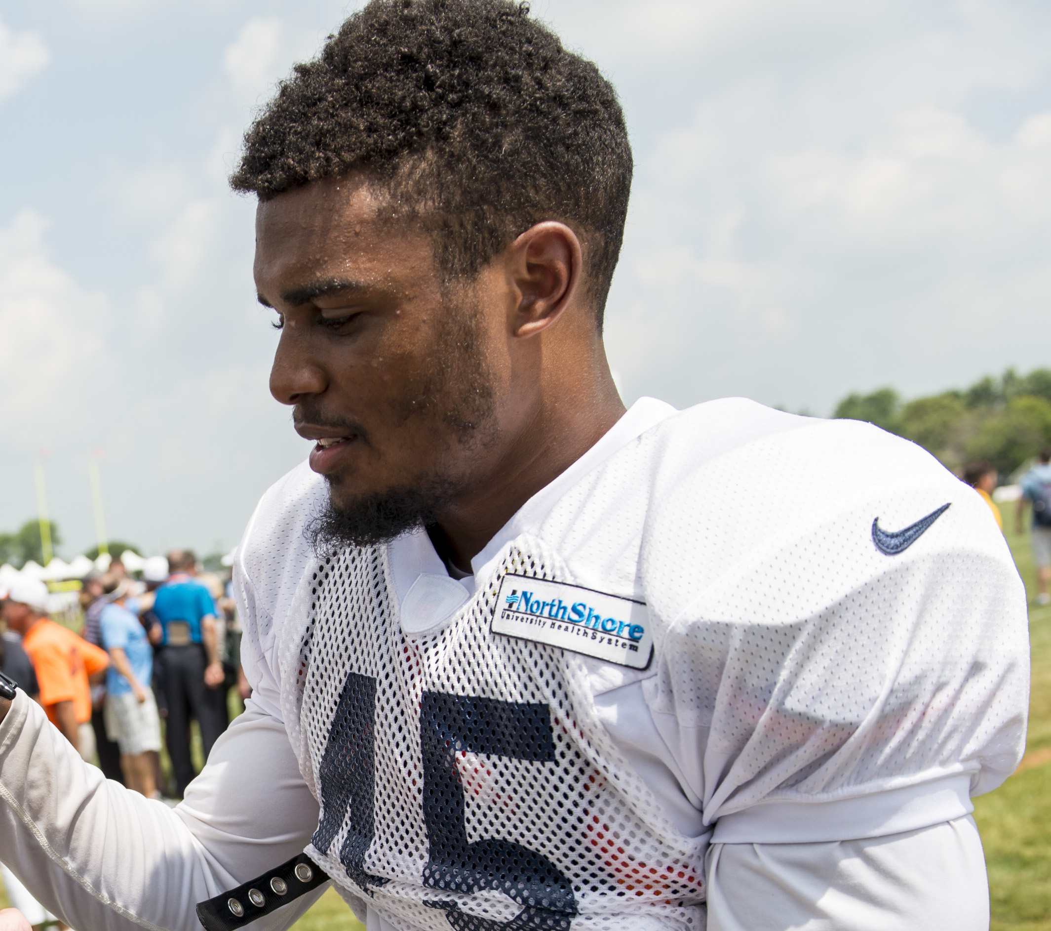 Chicago Bears safety, Brock Vereen, signing autographs at Chicago Bears training camp on August 10, 2015.